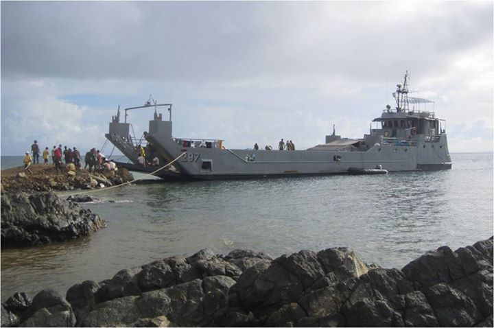 The Philippine Navy's landing craft utility BRP Manobo (AT-297) unloading relief goods at Homonhon island.